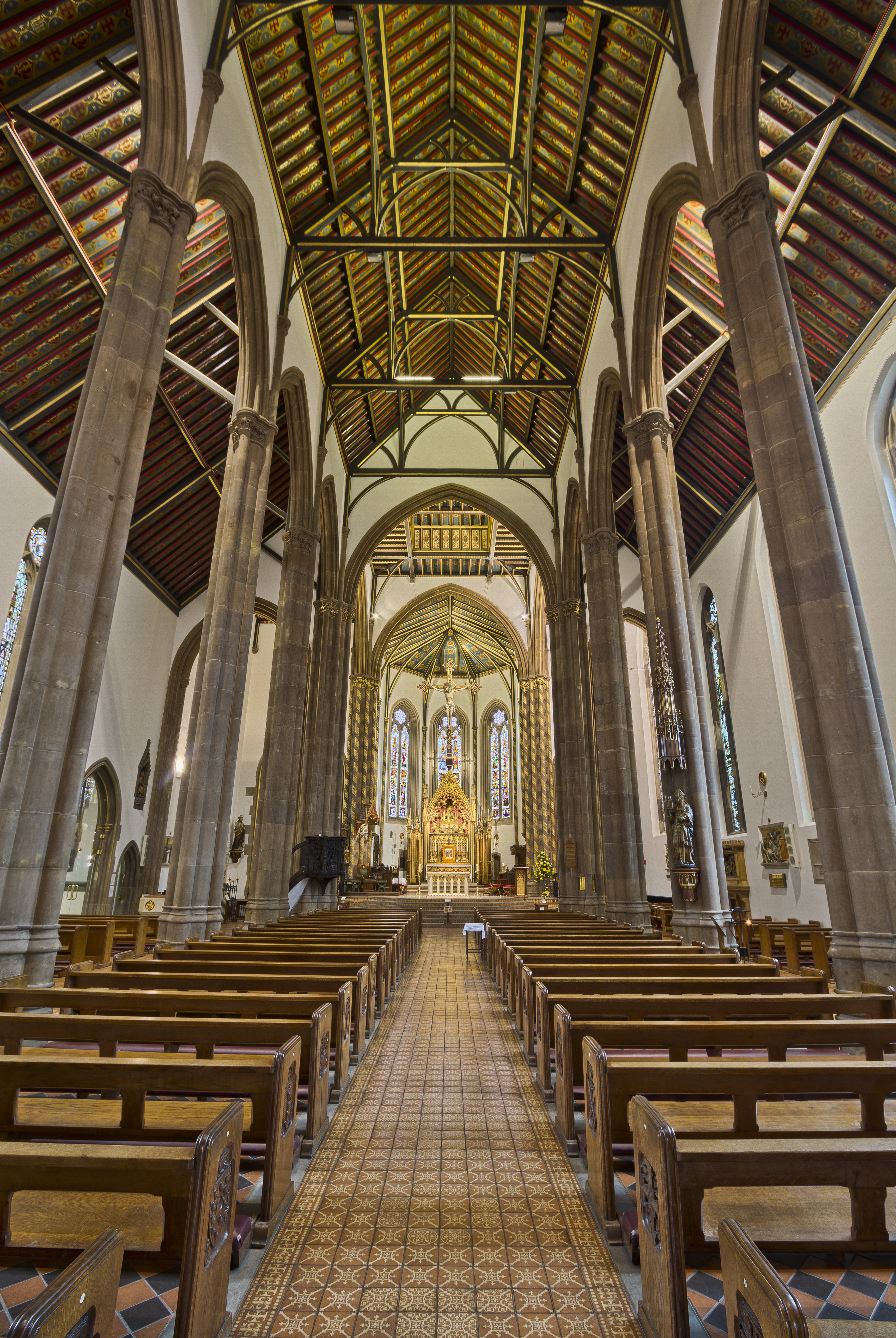 Here is an hdr photograph taken from St Chad's Cathedral. Located in Birmingham, England, UK. (taken with kind permission of St Chad's administration)